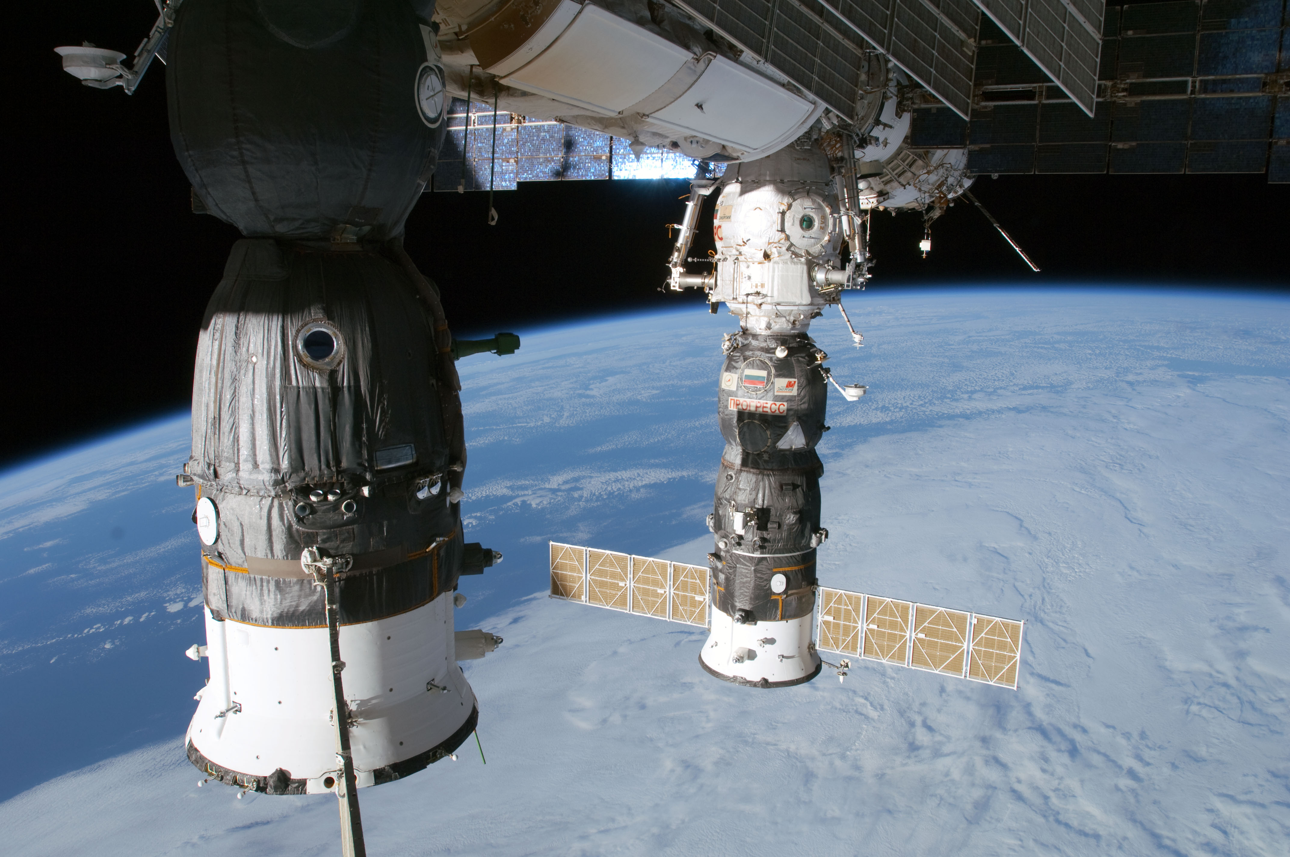 Russian Soyuz and Progress spacecrafts, docked to the International Space Station, are featured in this image photographed by a shuttle crew member on the station while space shuttle Endeavour (STS-130) remains docked with the station.